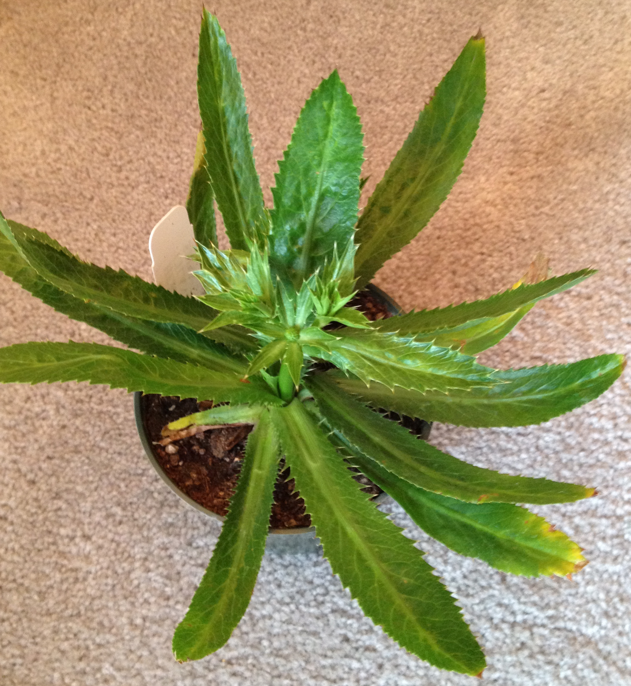 Foliage of Eryngium foetidum (Culantro)